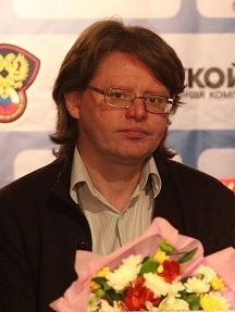 Mikhail Shchennikov at Pervay piaterka awarding ceremony